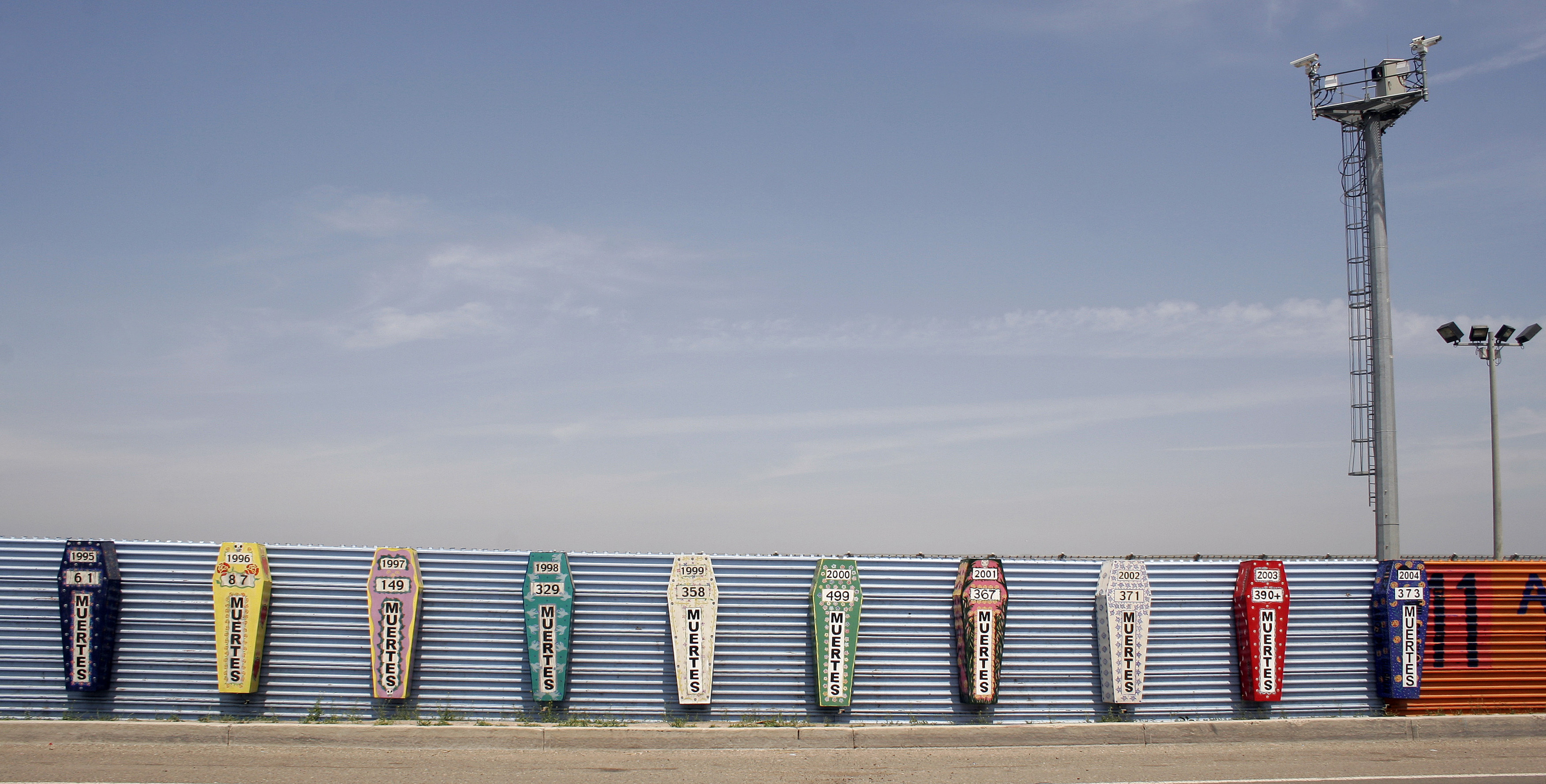 This is a monument for those who have died attempting to cross the US-Mexican border. Each coffin represents a year and the number of dead. It is a protest against the effects of Operation Guardian. Taken at the Tijuana-San Diego border.